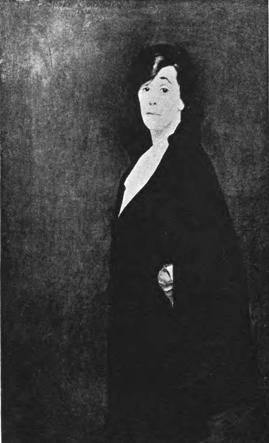 b&w reproduction of The Black Cape painting of a woman in a cape by Sidney E. Dickinson